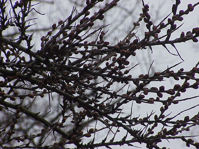 Species: Hippophae rhamnoides Family: Elaeagnaceae Image No. 1